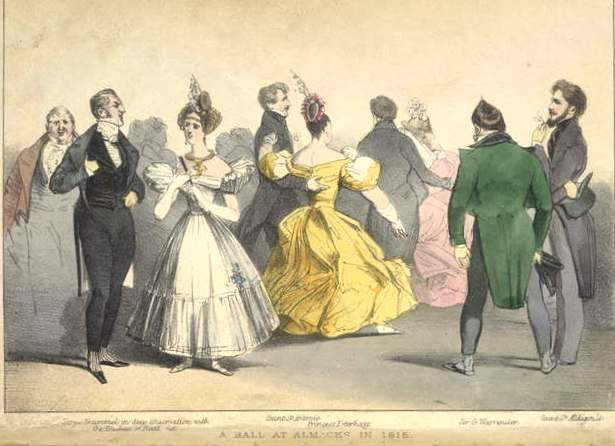 A print from Reminiscences and Recollections of Captain Gronow: Being Anecdotes of Camp, Court, Club and Society 1810 to 1860 published in 1865. It shows a ball at Almack's, supposedly in the year 1815, and the couple on the left are annotated as 'Beau Brummell in Deep Conversation with the Duchess of Rutland'. According to the author the original was presented to Beau Brummell himself by the artist. This copy is from the collection of the British Museum. A cursory comparison of dress styles and other images of Brummell demonstrates that the image depicts neither Brummell nor 1815. The dress style is late 1820s or early 1830s, and the profile more closely matches the Duke of Wellington's famous high-bridged nose than Brummell's dainty retroussé one.